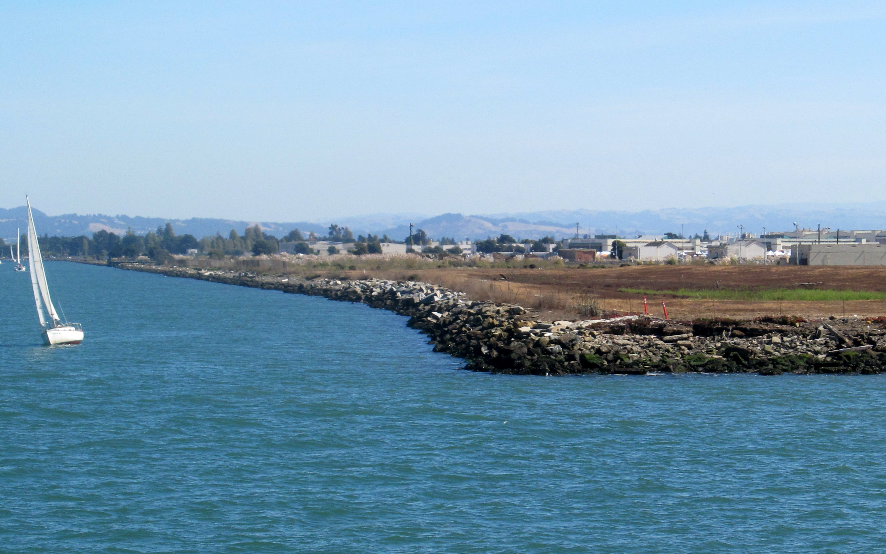 The former Alameda Mole on the edge of the former NAS Alameda in December 2017